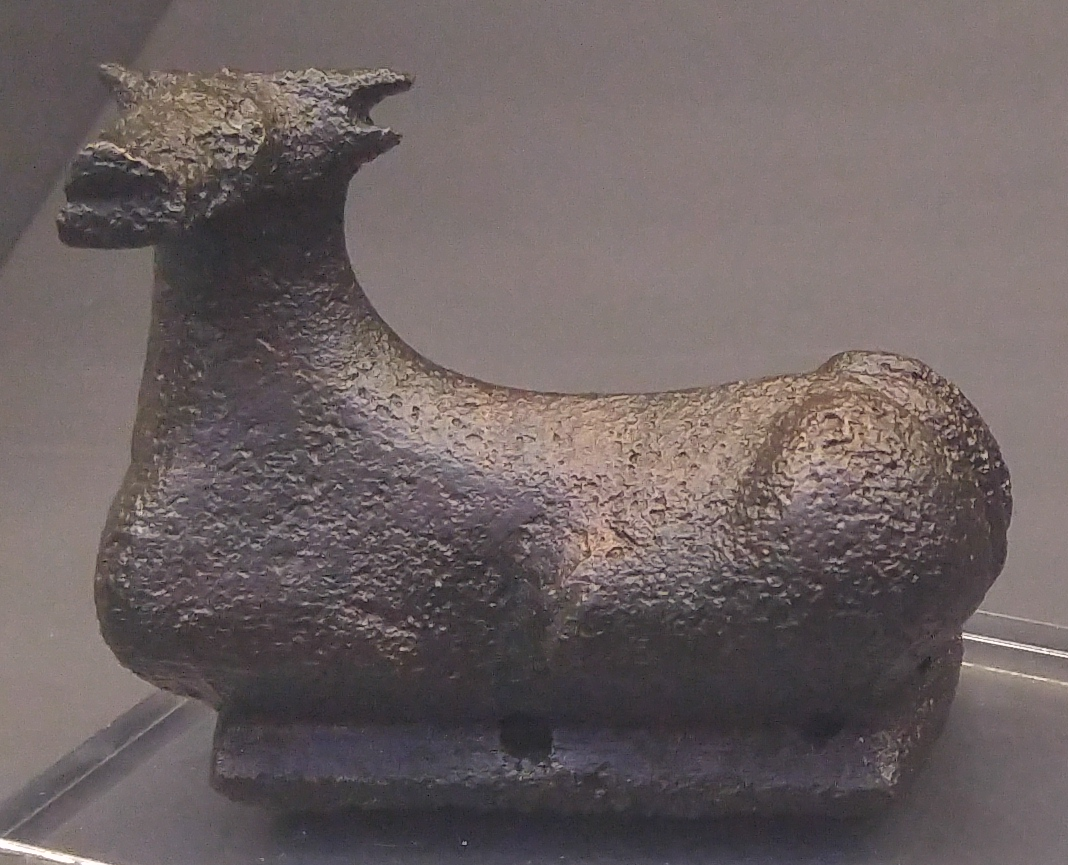 Seated bull bronze pendants (Bronze, 720-610 B.C., Archaeological Museum of Tegea, 2017)